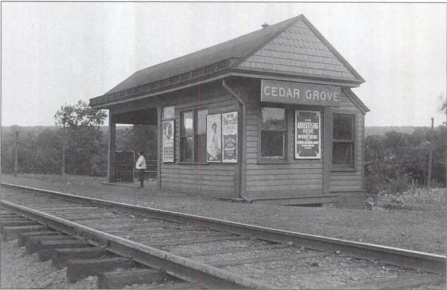 A photo of the Cedar Grove, New Jersey station on the Caldwell Branch of the Erie Railroad. The same year Cedar Grove became a separate community from Verona.